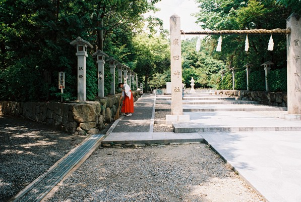 Photo by W. Hogue. 14 May 2006. Approach to Hirota Jinja, Nishinomiya, Japan.